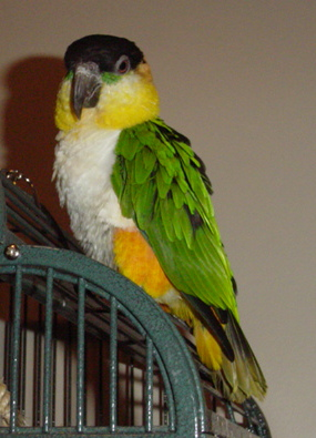 A mature female Black-headed Caique or Black-headed Parrot (Pionites melanocephalus) in captivity.